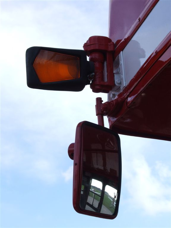 Mirror and indicator